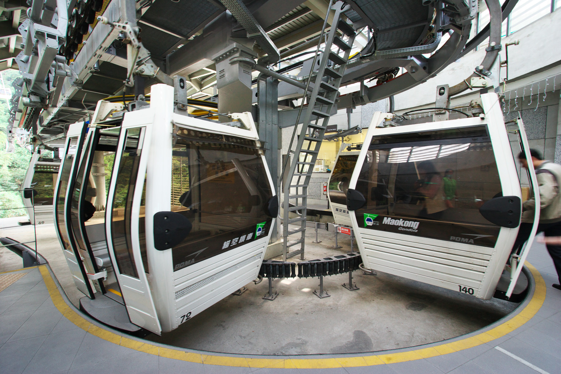 Maokong Gondola Taipei Zoo station.